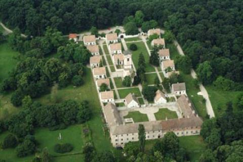 Majk convent This picture is © copyright Civertan Grafikai Stúdió (Civertan Bt.), 1997-2006.; has been verified that Commons user Civertan is controlled by Civertan Grafikai Stúdió and that it is allowed to relicense content copyrighted to this organization. This work is free and may be used by anyone for any purpose. If you wish to use this content, you do not need to request permission as long as you follow any licensing requirements mentioned on this page.